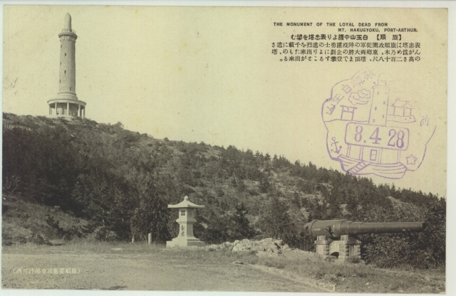 The monument on the top of Paiyushan